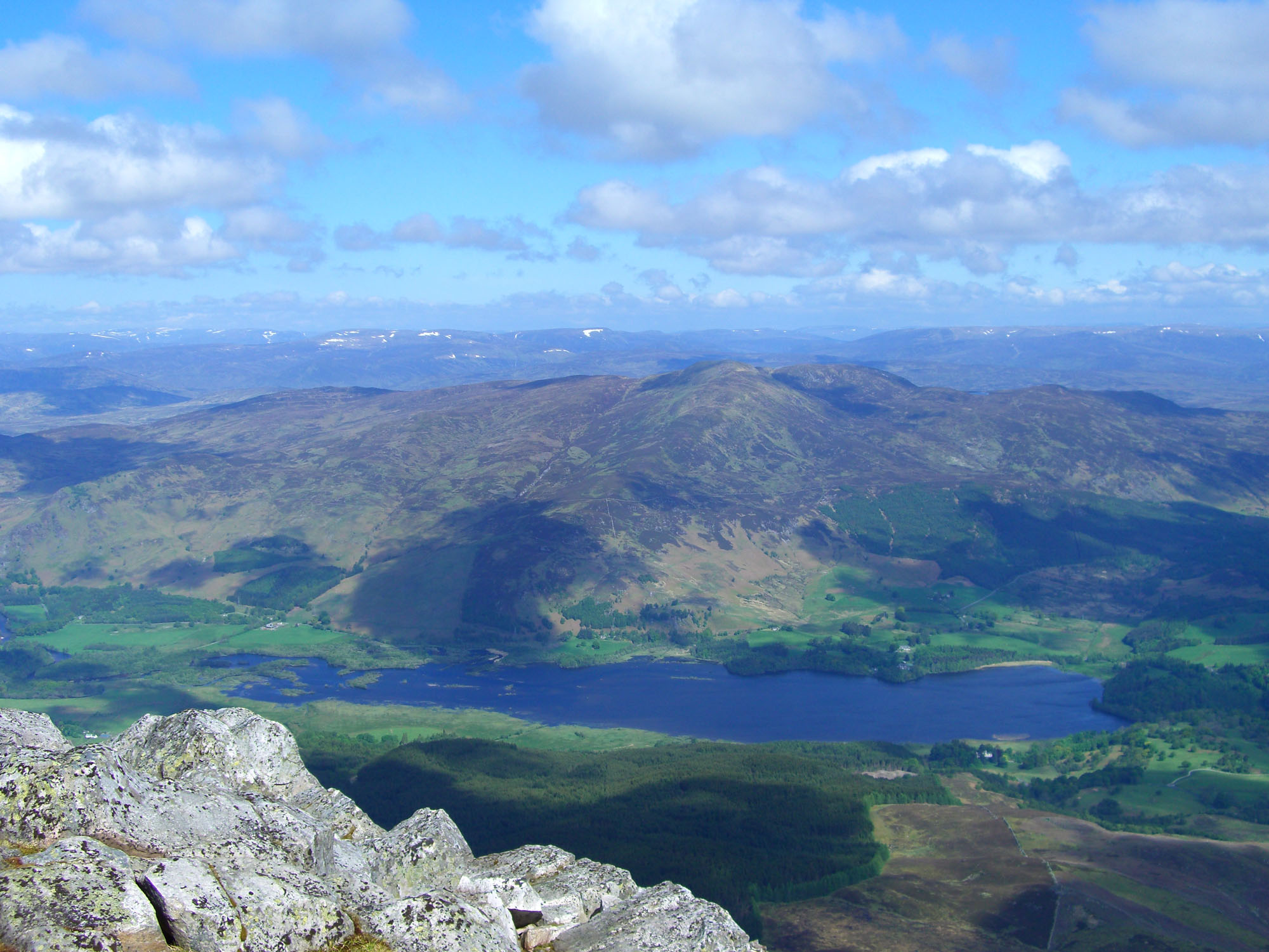 The mountain Beinn a Chuallaich from Schiehallionn